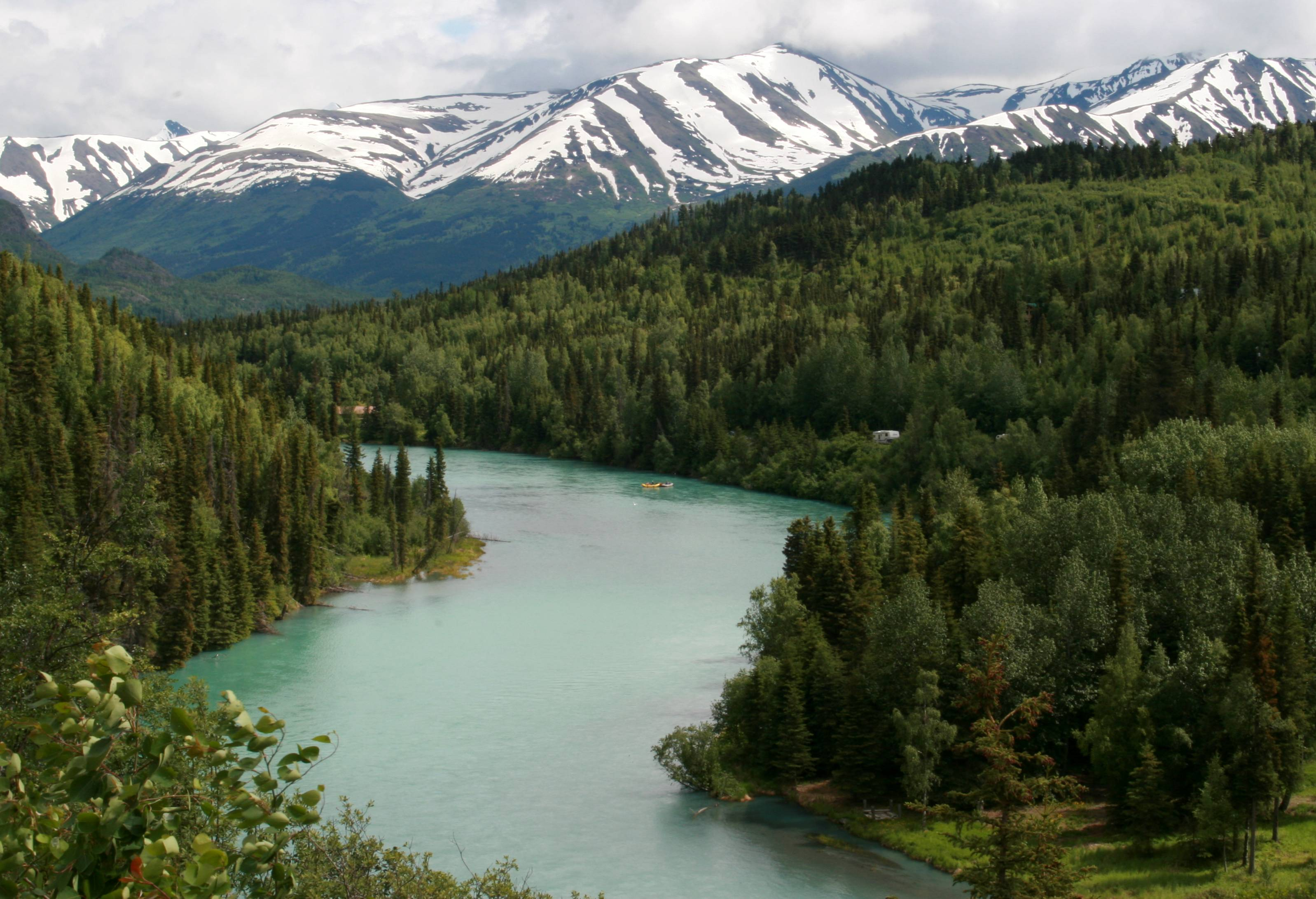 Taken on a quick day trip to the Kenai Peninsula, south of Anchorage, Alaska in June 2008.